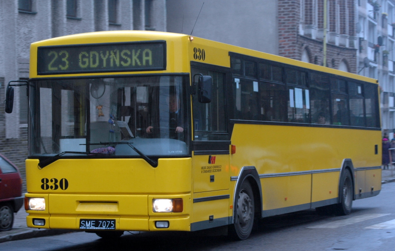 Jelcz 120MM/2 city bus (#830) in Stargard Szczeciński, Poland. Built 1998, MZK Stargard Szczeciński operator.